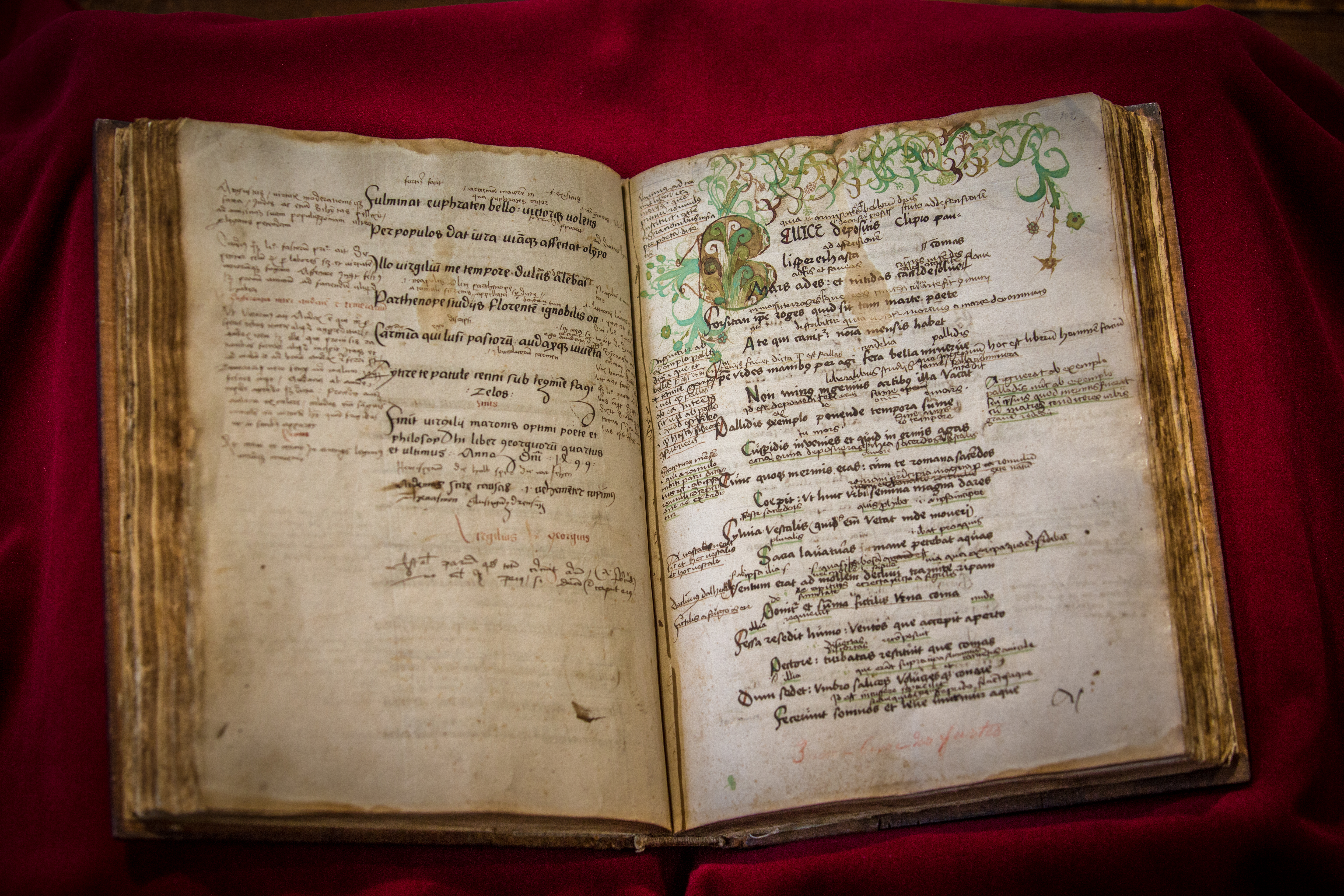 School notebook of Beatus Rhenanus, student at the Latin School of Sélestat (1498-1499) Texts, drawings and comments of the hand of the student, 13 years old. Paper. Left page: end of Virgil's Georgiques: right page: beginning of Fastes by Ovid. Coll. Bibliothèque humaniste de Sélestat, Ms 50.